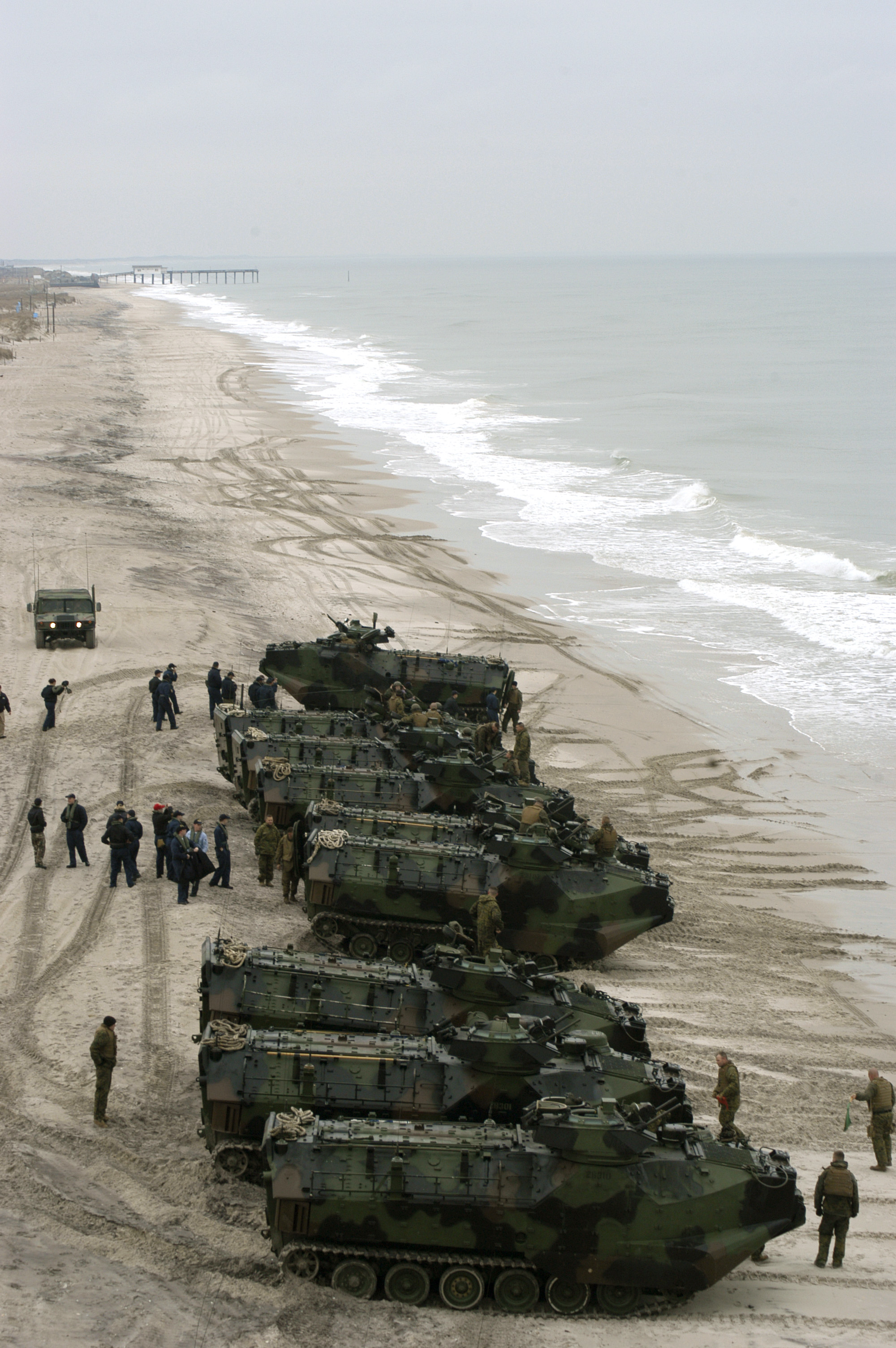 Atlantic Ocean (Feb. 23, 2006) – U.S. Marine Corps Amphibious Assault Vehicles (AAV) assigned to the 2nd AA Battalion, Bravo Company arrive on Onslow Beach as part of a beach invasion exercise. The exercise was one part of the amphibious assault ship USS Bataan (LHD 5) well deck certification. U.S. Navy photo by Photographer’s Mate 3rd Class Kleynia R. Mcknight (RELEASED)